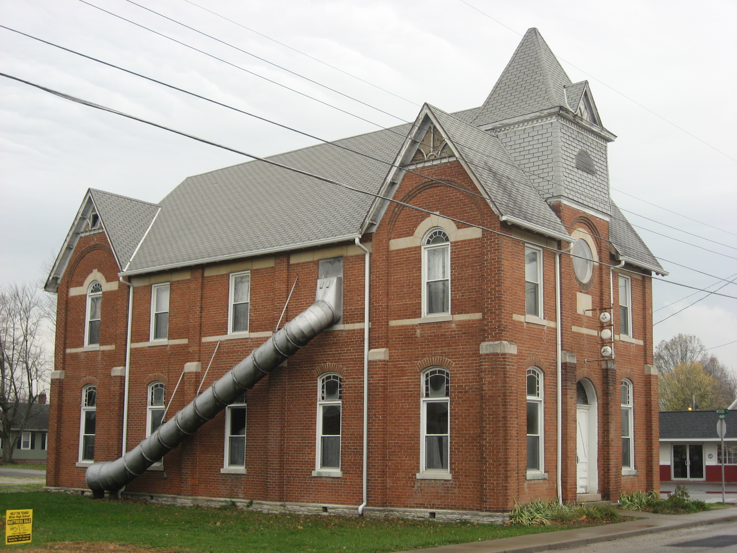 Front and southern side of the Milan Masonic Lodge No. 31, located at 312 N. Main Street in Milan, Indiana, United States. Built in 1900, it is listed on the National Register of Historic Places.